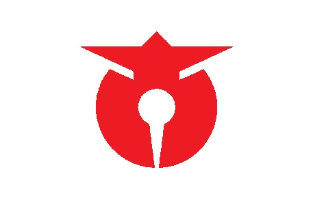 Flag of Takahagi Ibaraki